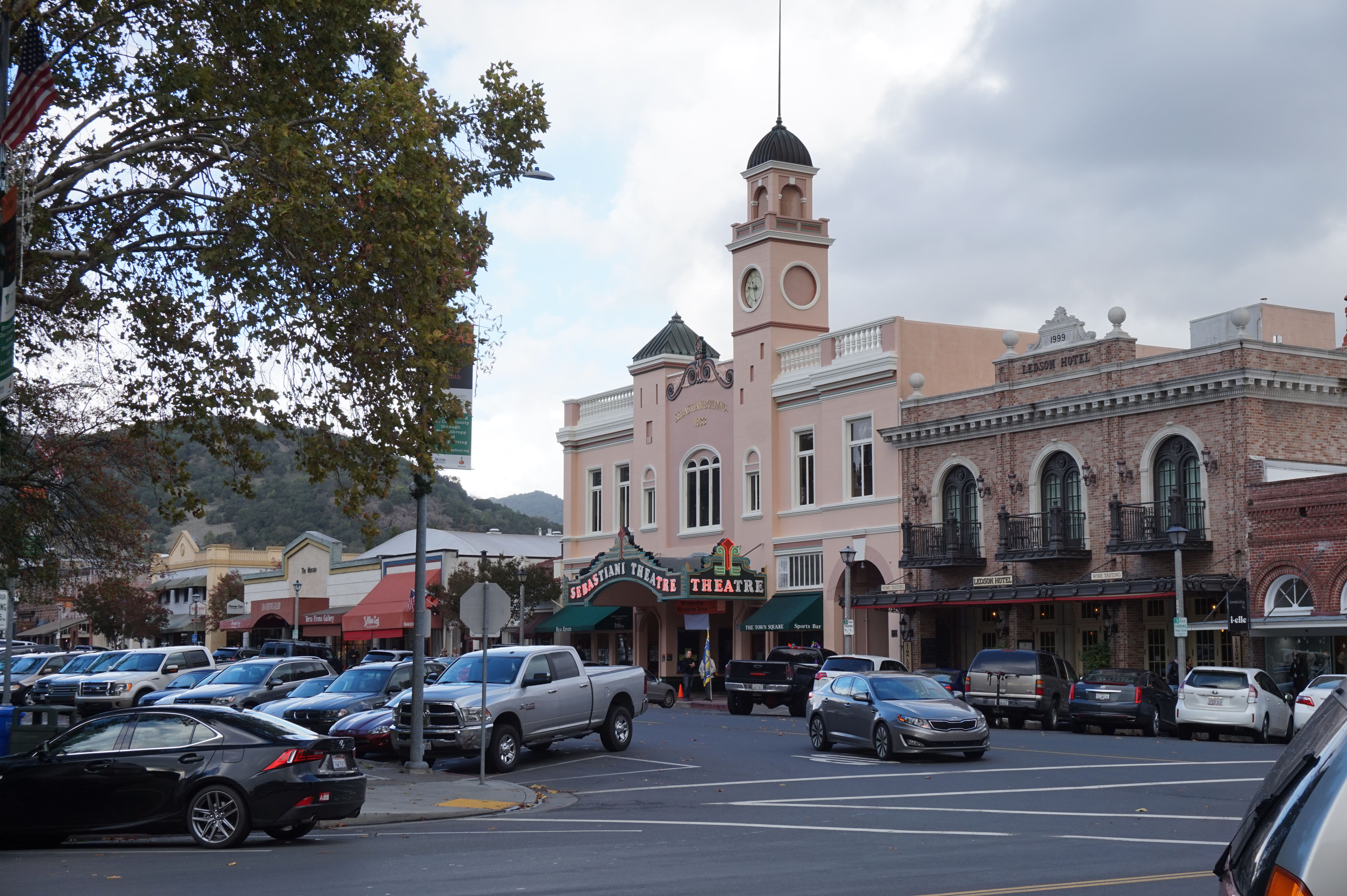 in sonoma town